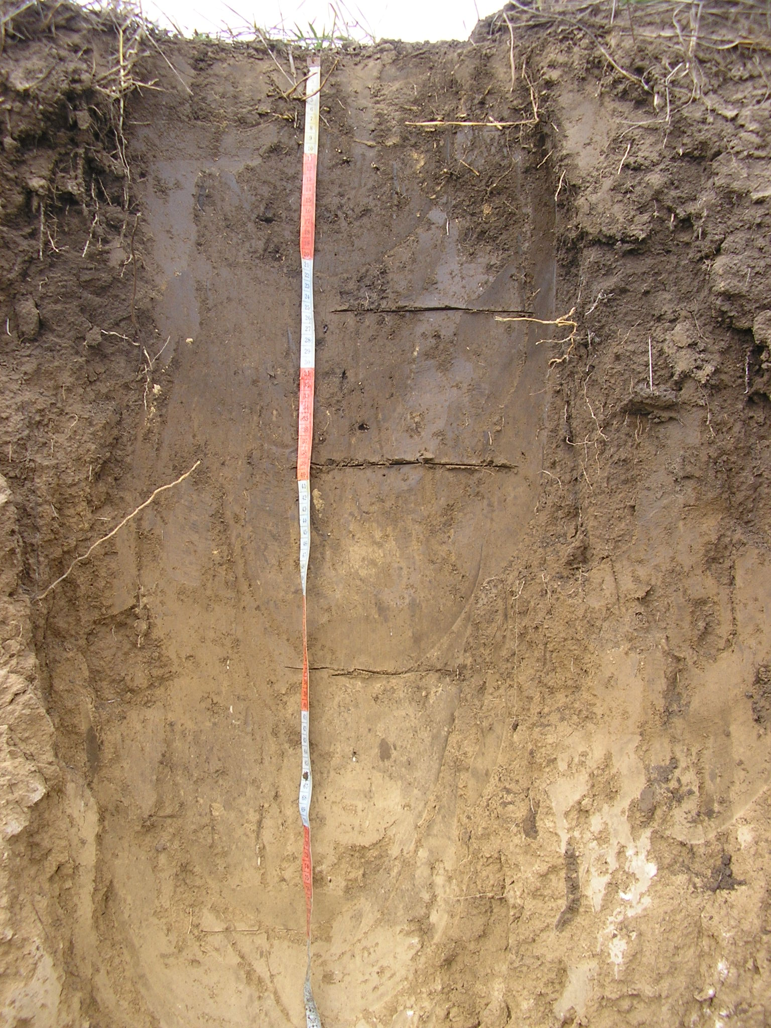 Soil profile of Chernozem steppe zone of Ukraine — (Mollisols; Kalkschernoseme; Chernosols).